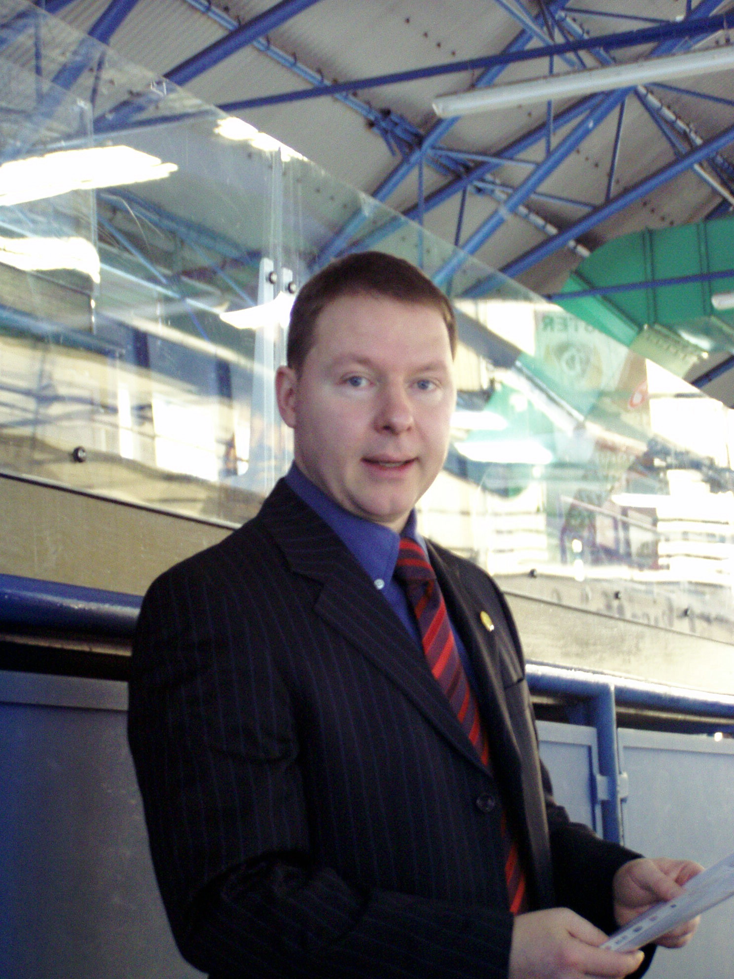 Alexander König judging as the technical specialist in the German Pairs Championships 2006 at Berlin. The picture was taken with his kind permission by me. (Thank you again)